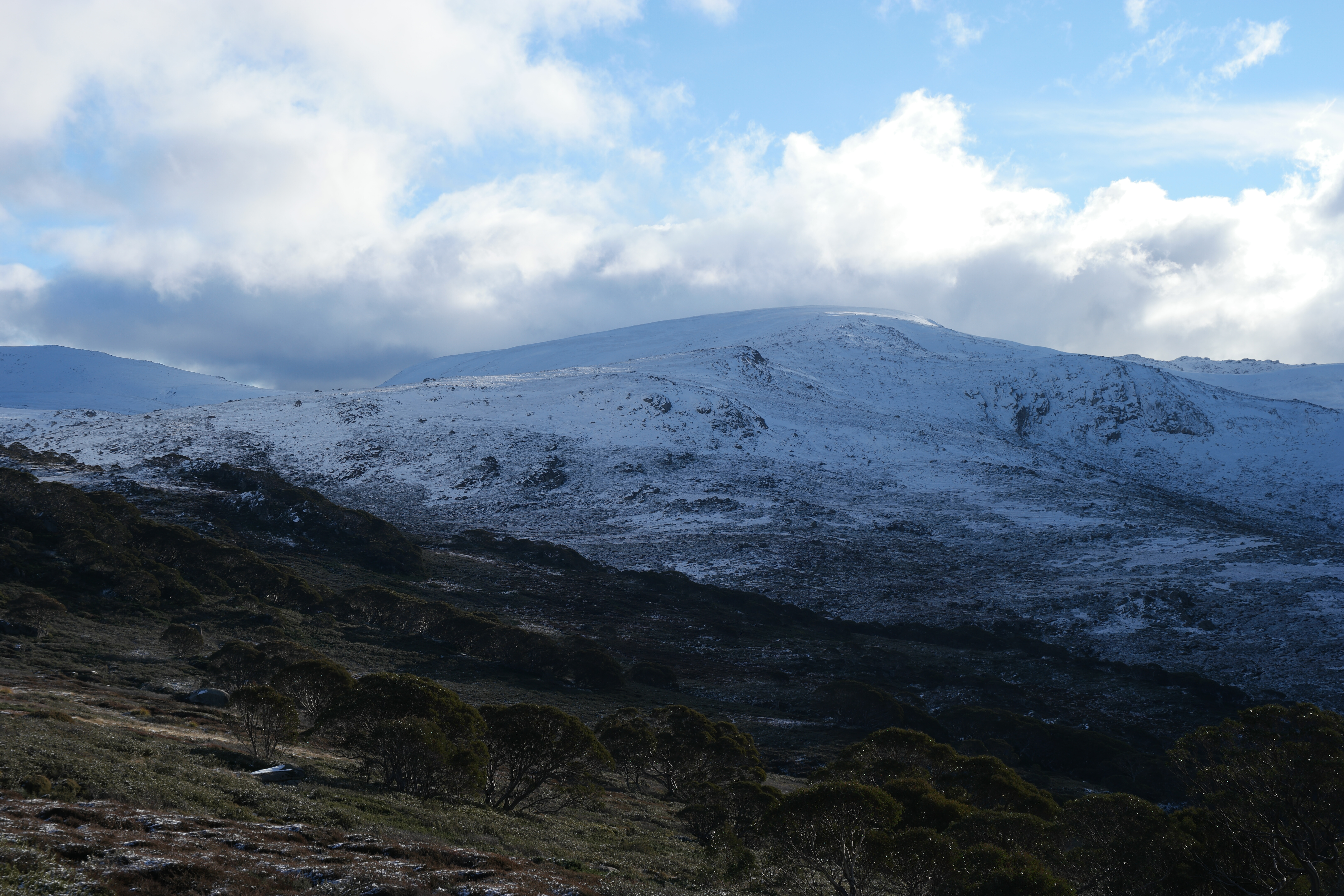 Mount Kosciuszko Summit walk from Charlotte Pass, Kosciuszko National Park, New South Wales, Australia.